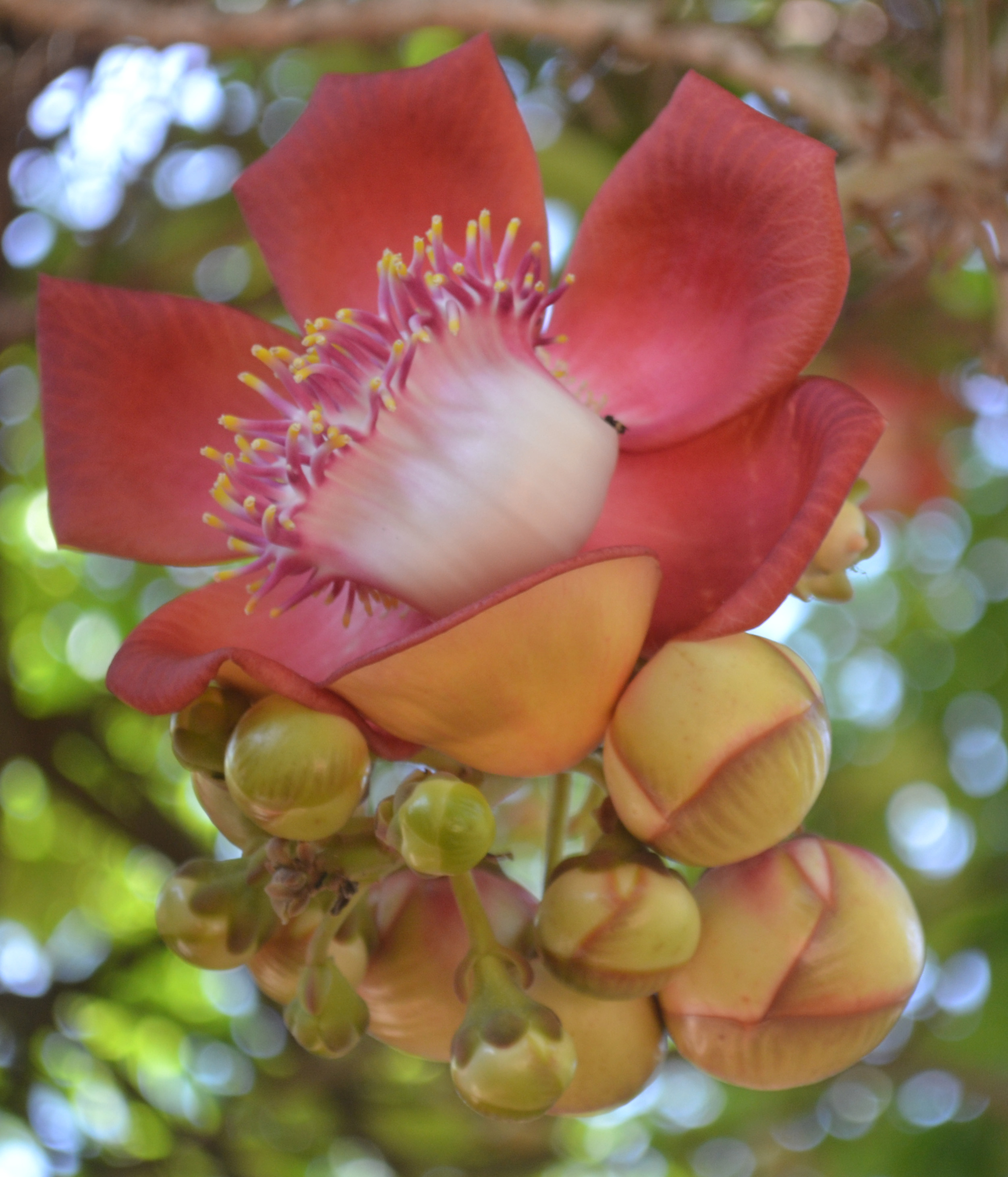 Couroupita guianensis at Puralimala muthappan temple